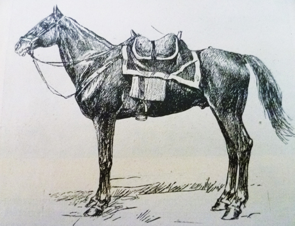 The Russian Don (from Narodnaya Enc.)